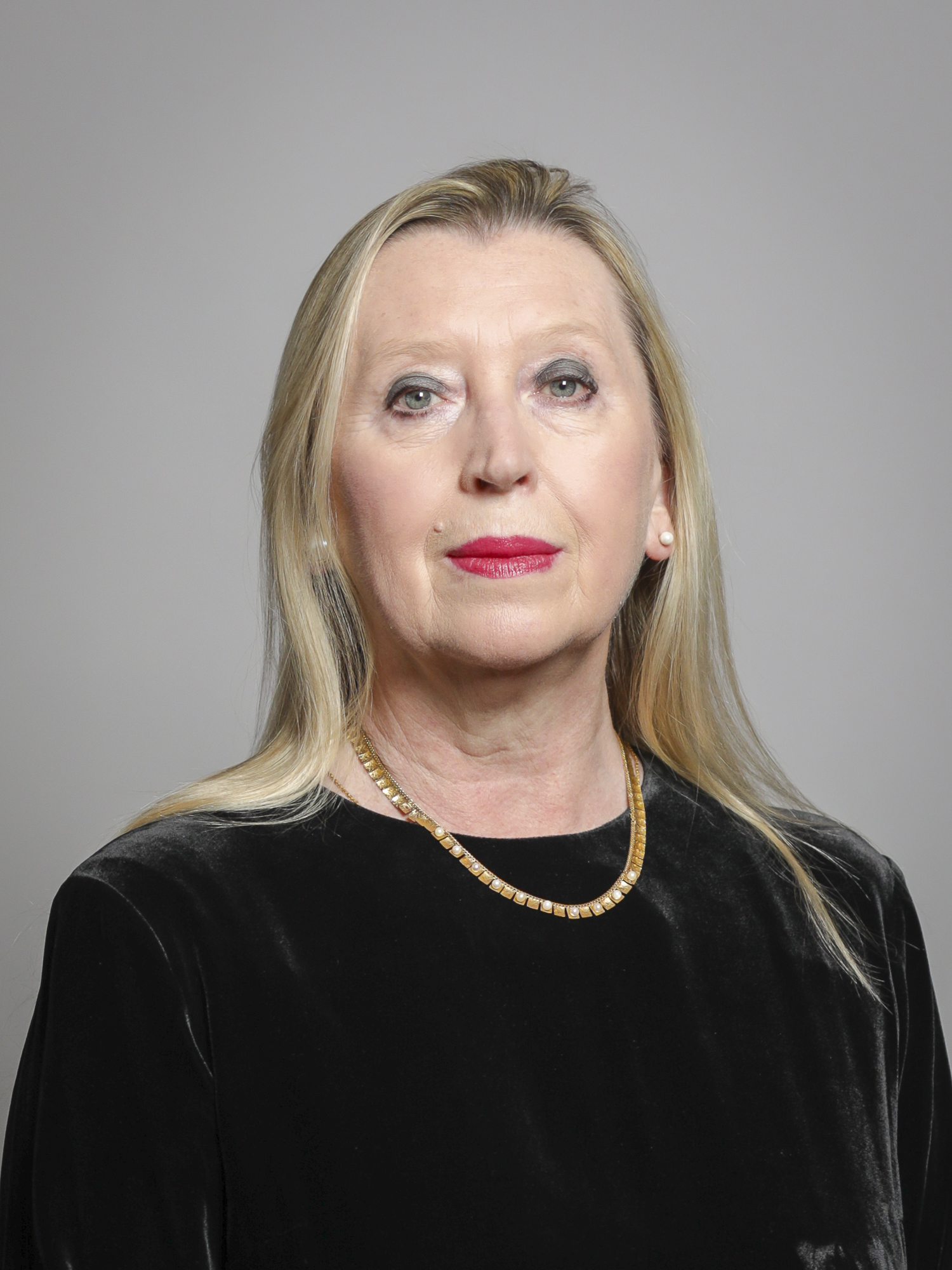 Official portrait of Baroness Healy of Primrose Hill 3×4 portrait of Baroness Healy of Primrose Hill